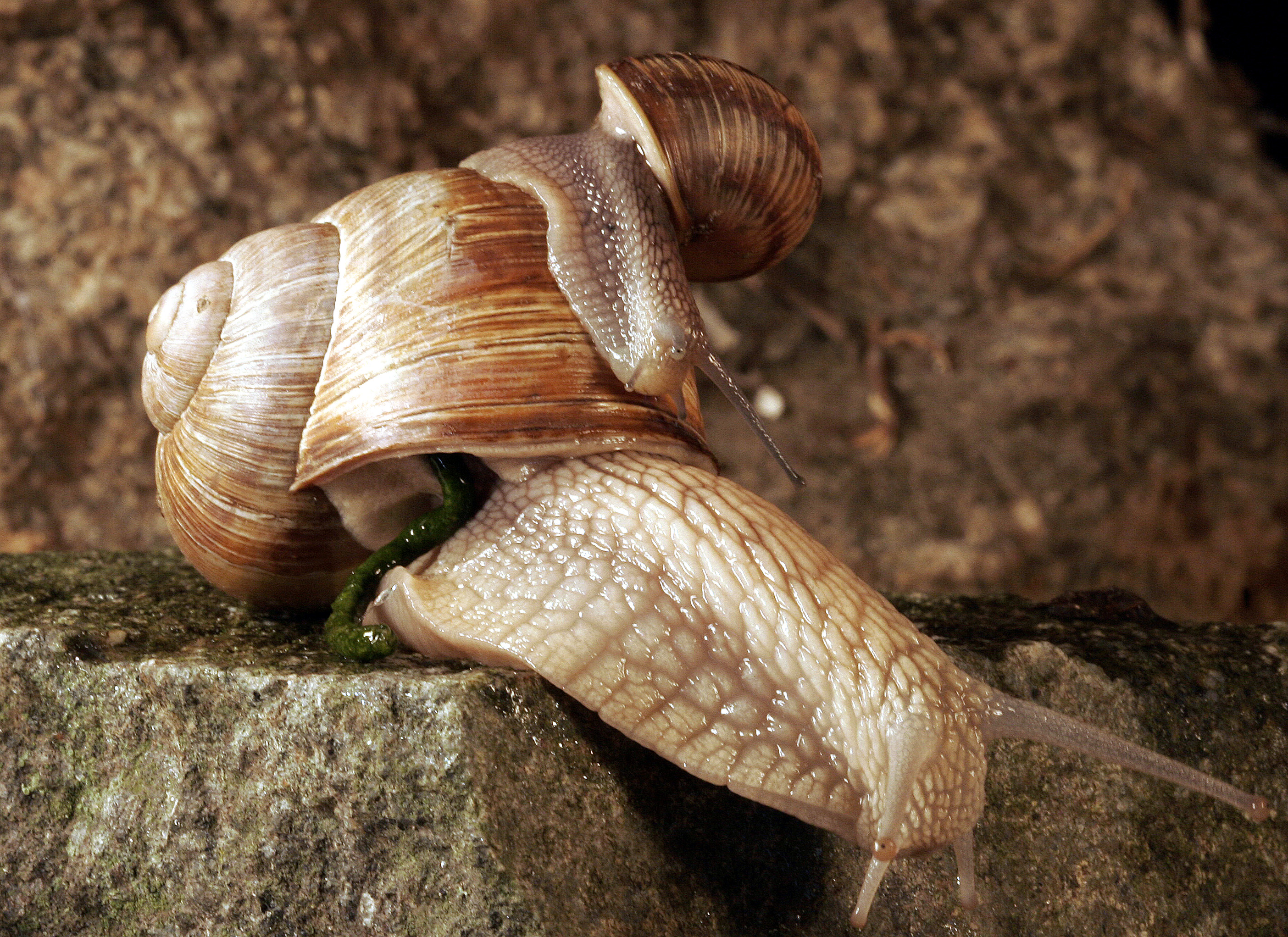 Helix pomatia. Adult with youmg snail. Adult excretes green feces.